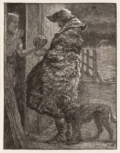 Parable of the Friend at Night